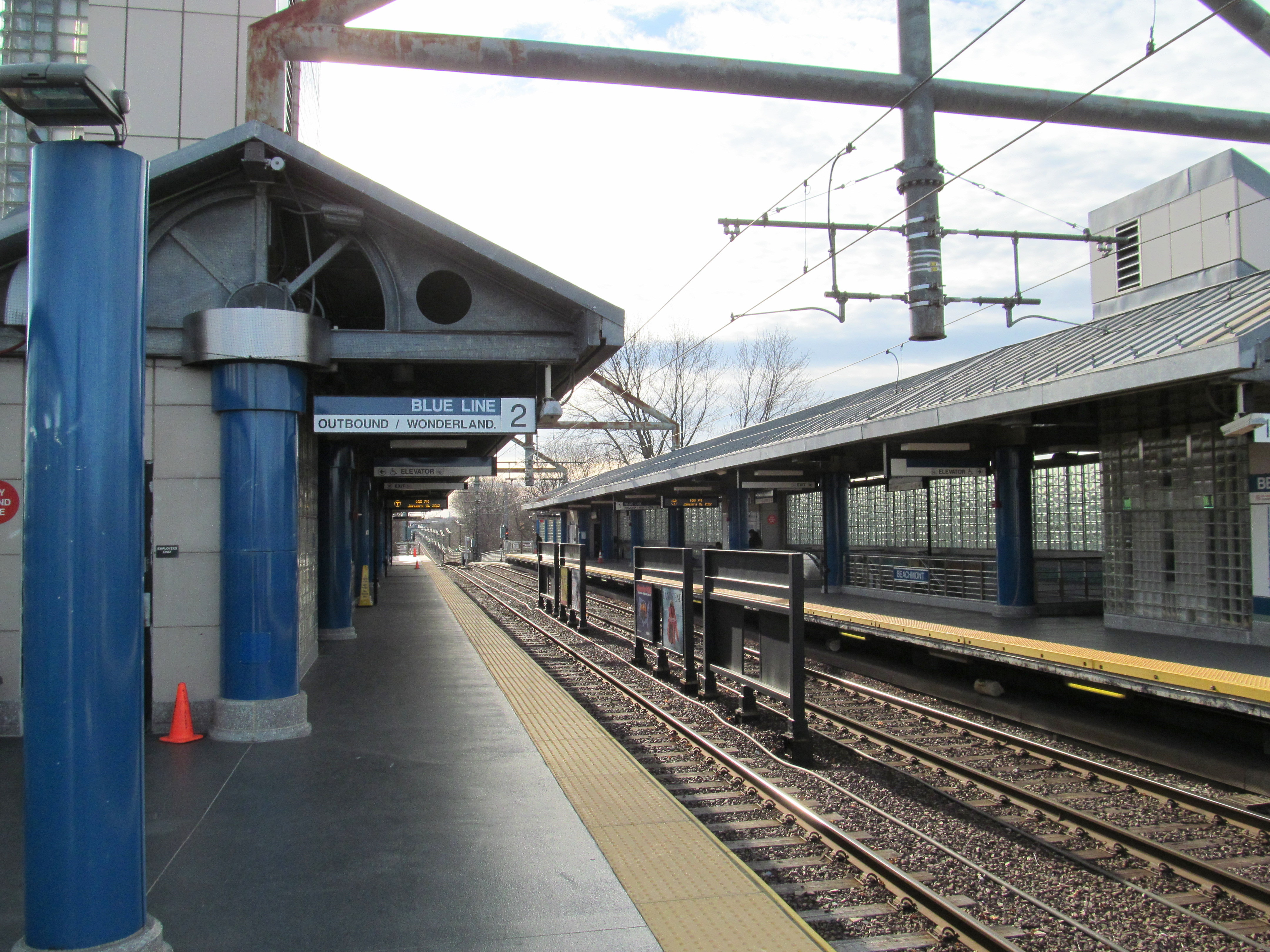 Beachmont station platforms, looking inbound